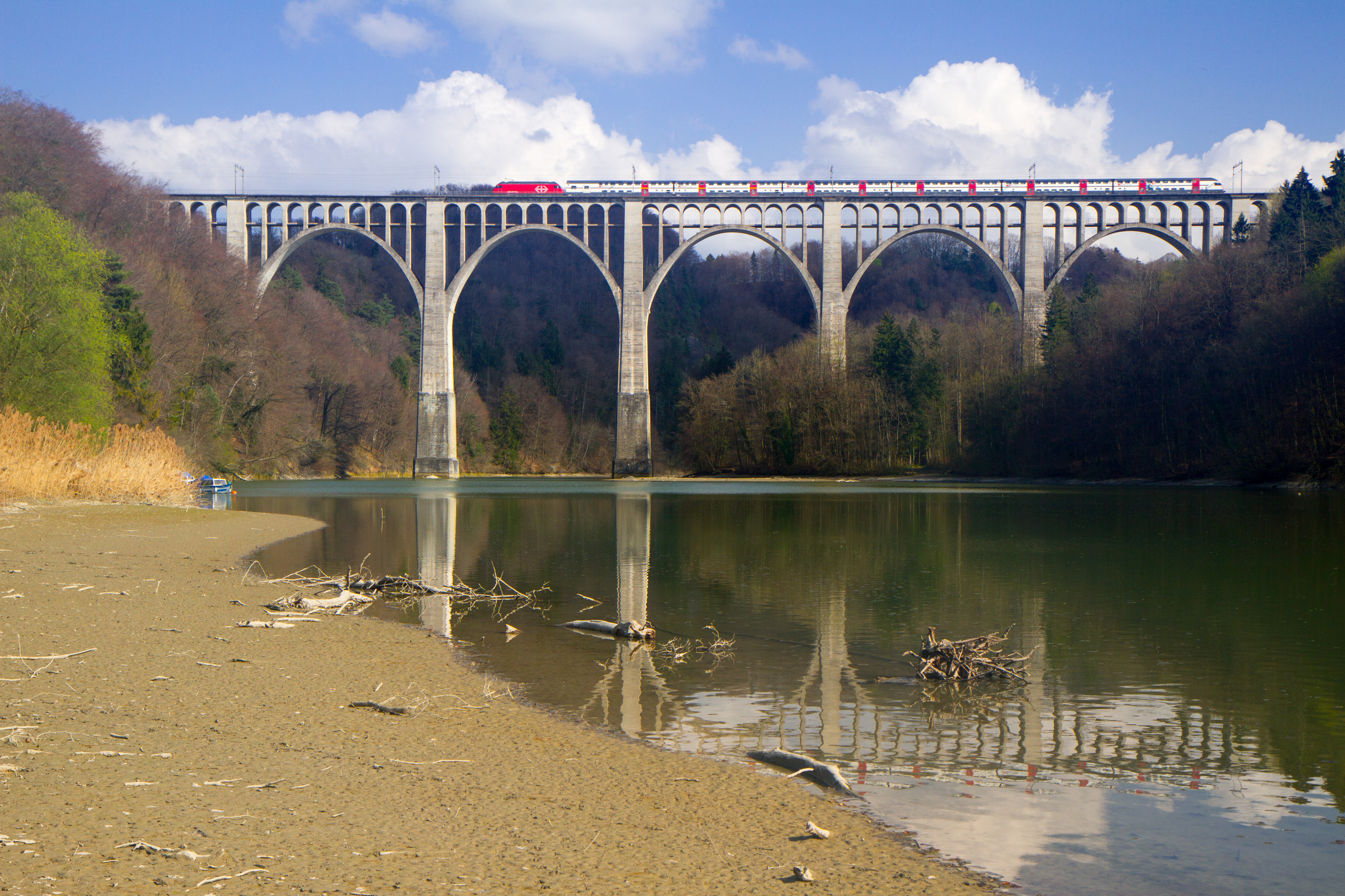 Viaduc de Grandfey, Fribourg (FR)